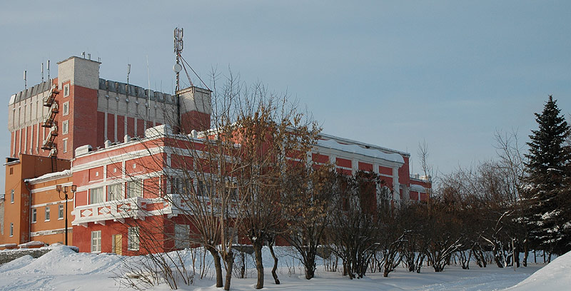 Kimry Drama Theater, built in 1942.